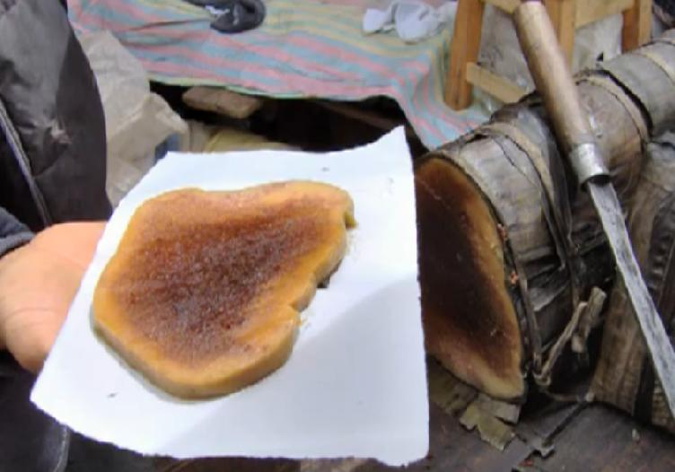 Koba (kobandravina) - a traditional dessert in Madagascar, made from peanuts, rice flour and sugar.